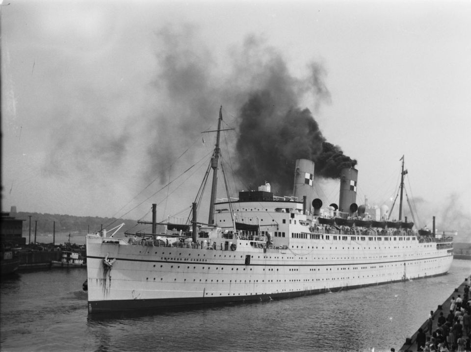 For documentary purposes the original description provided by BAnQ has been retained. Additional descriptive text may be added by Wikimedians with the wiki description = parameter, but please do not modify the other fields.